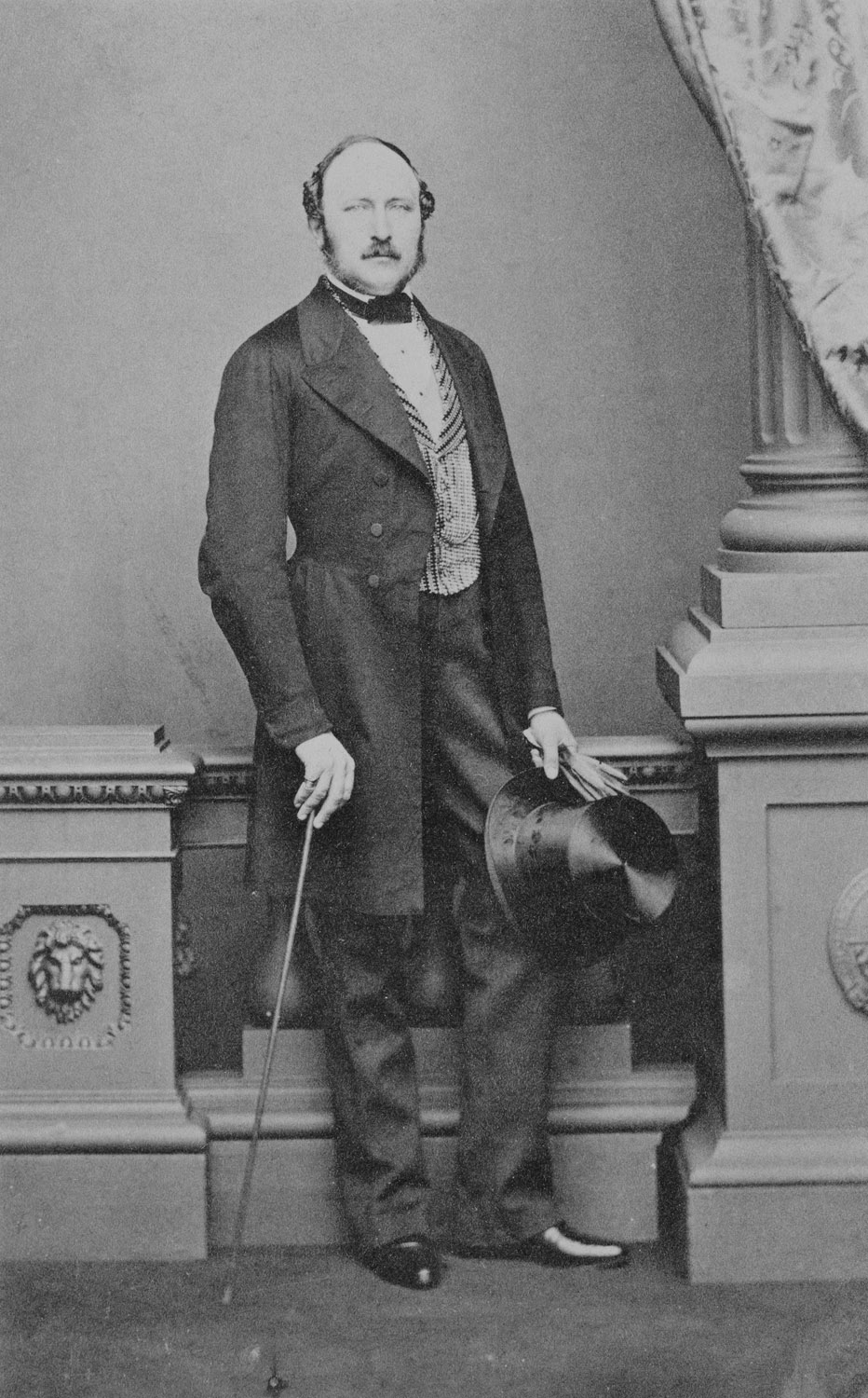 Photograph of Prince Albert, standing in front of a balustrade, wearing morning suit and striped waistcoat, holding top hat and gloves and walking stick